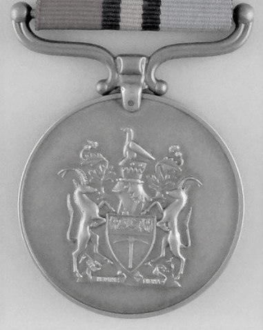 Awarded to members of the security forces and police for combating enemy incursions into Rhodesia, 1968-80.